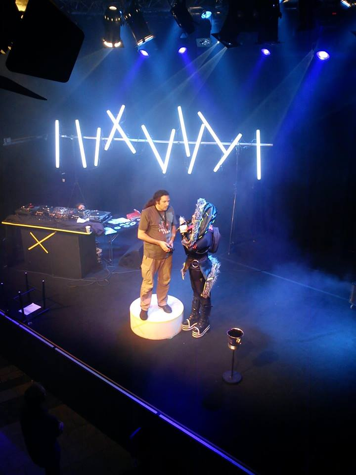 Siegfried Kaercher Award Ceremony Kulturhuset Stockholm. Siegfried Kaercher receives the 1st Prize Category Audio Visual Arts at Stockholm Fringe Fest